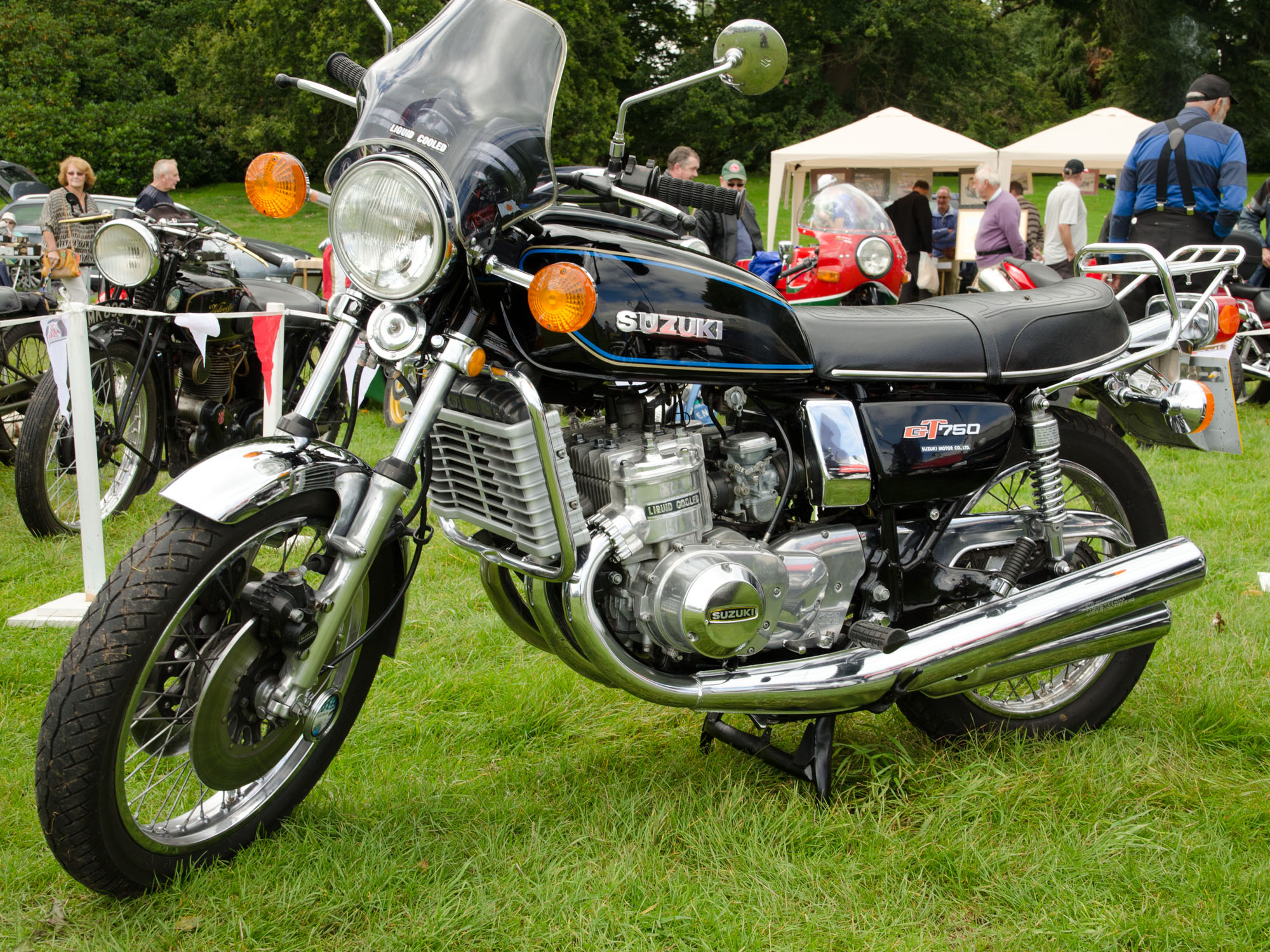 Cholmondeley Classic Car Show 31/08/2014